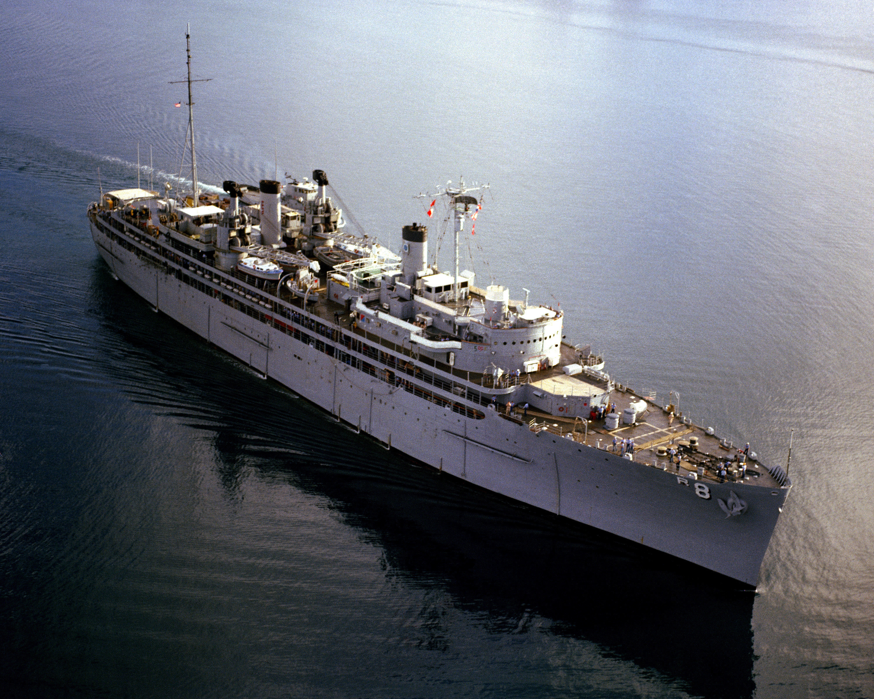 The U.S. Navy repair ship USS Jason (AR-8) off Guam, in 1983.